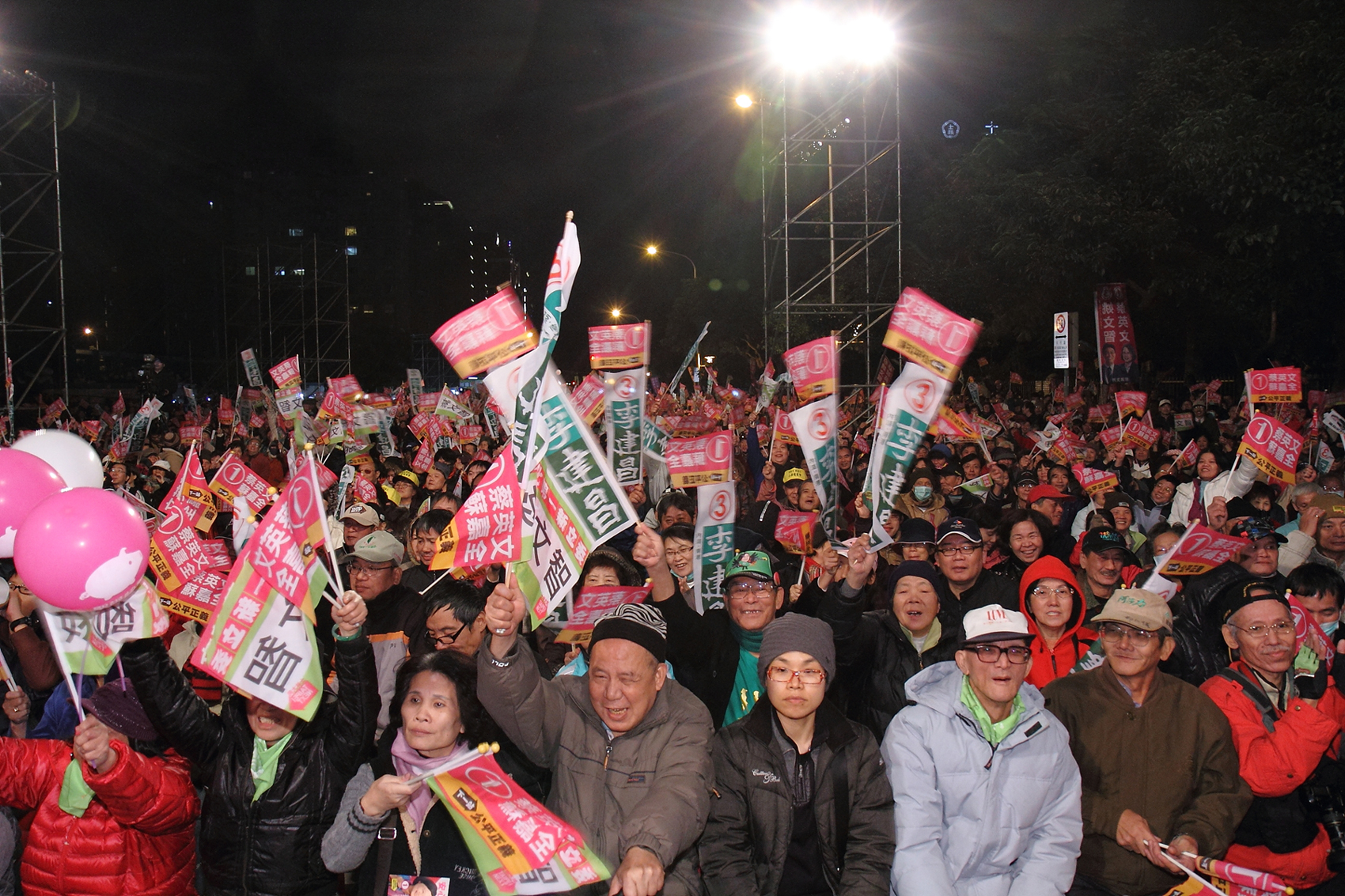 Supporters of DPP presidential candidate Tsai Ing-wen attend a rally in Taipei on Dec. 25, 2011.